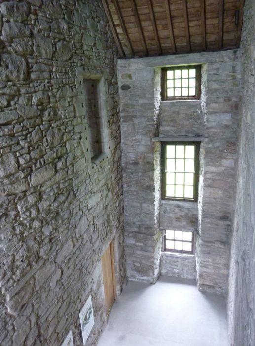 Interior of Huntingtower castle (Maiden's Leap)